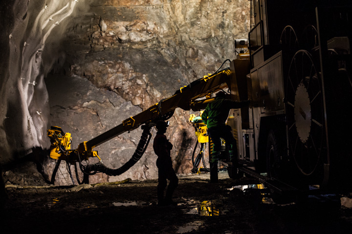 Construction of Holmestrandfjellet Tunnel of the Vestfold Line, Norway